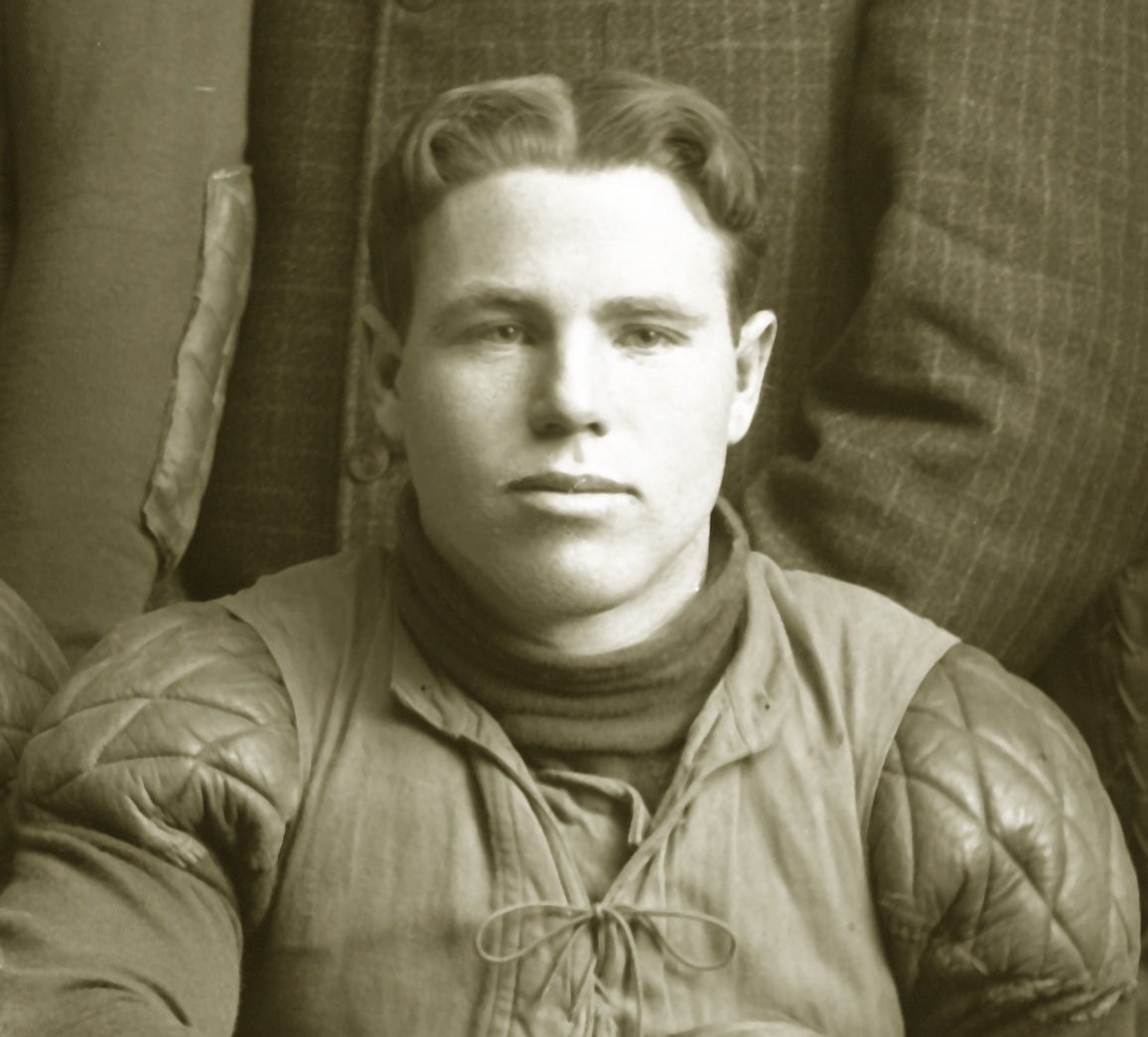 Photograph of Willie Heston